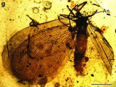 Cretanallachiinae from late Cretaceous Burmese amber. g Oligopsychopsis groehni, NIGP164479, female. An antennae, Eye compound eye, Ep eyespot, Ga galea, Lbp labial palp, Lg ligula, Mxp maxillary palp. Scale bar, 4 mm